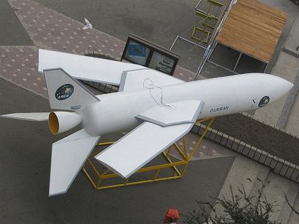 Orizont picture in Ramnicu Valcea